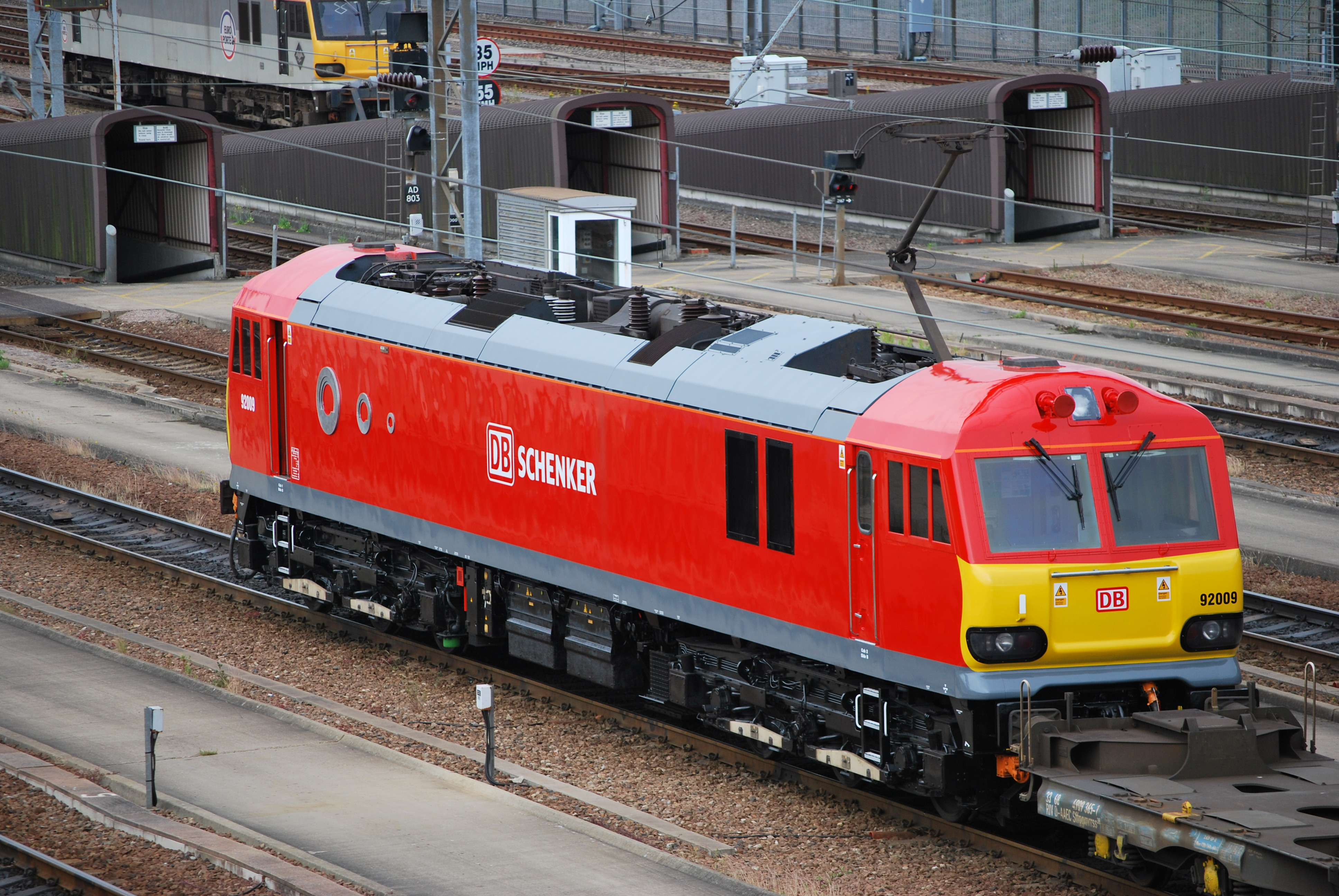 Showing off the new DB livery